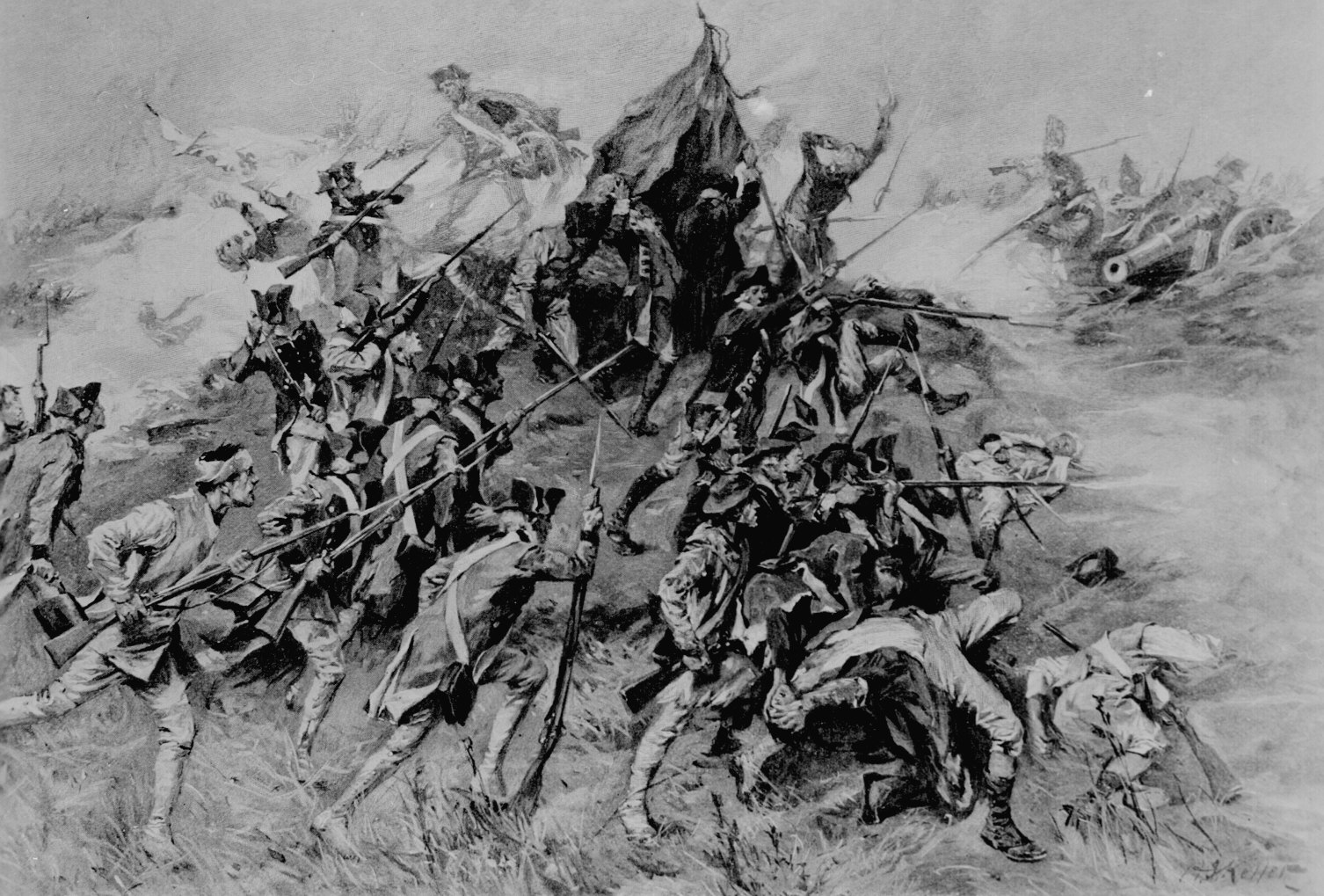 Siege of Savannah, American Revolutionary War